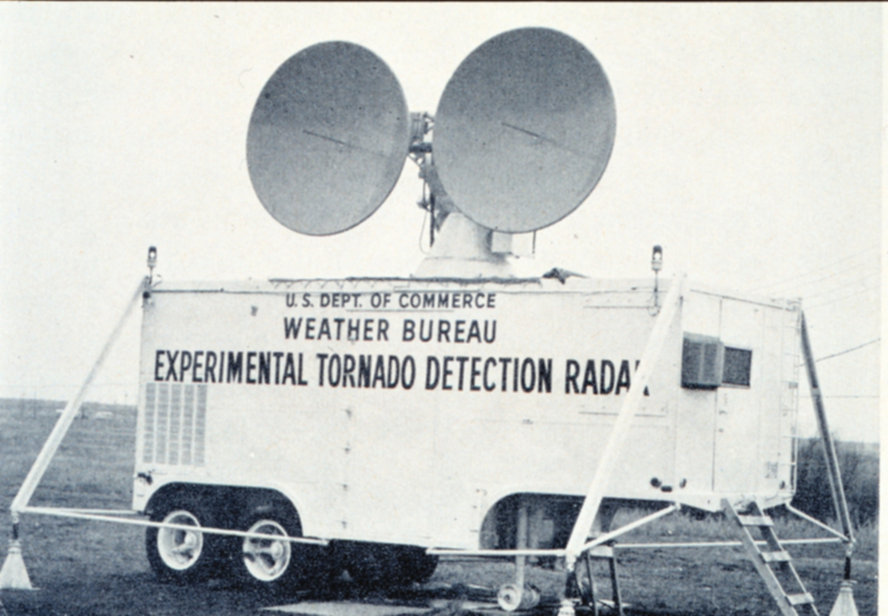 The Weather Bureau's first experimental Doppler Radar unit. This radar was a 3-cm continuous wave Doppler unit obtained from the Navy and modified for meteorological purposes by NSSL. This side-by-side transmitting and receiving antennas was used for tornado studies in the Southern plains during the late 1950s. It was modified into a pulsed Doppler radar in 1964.